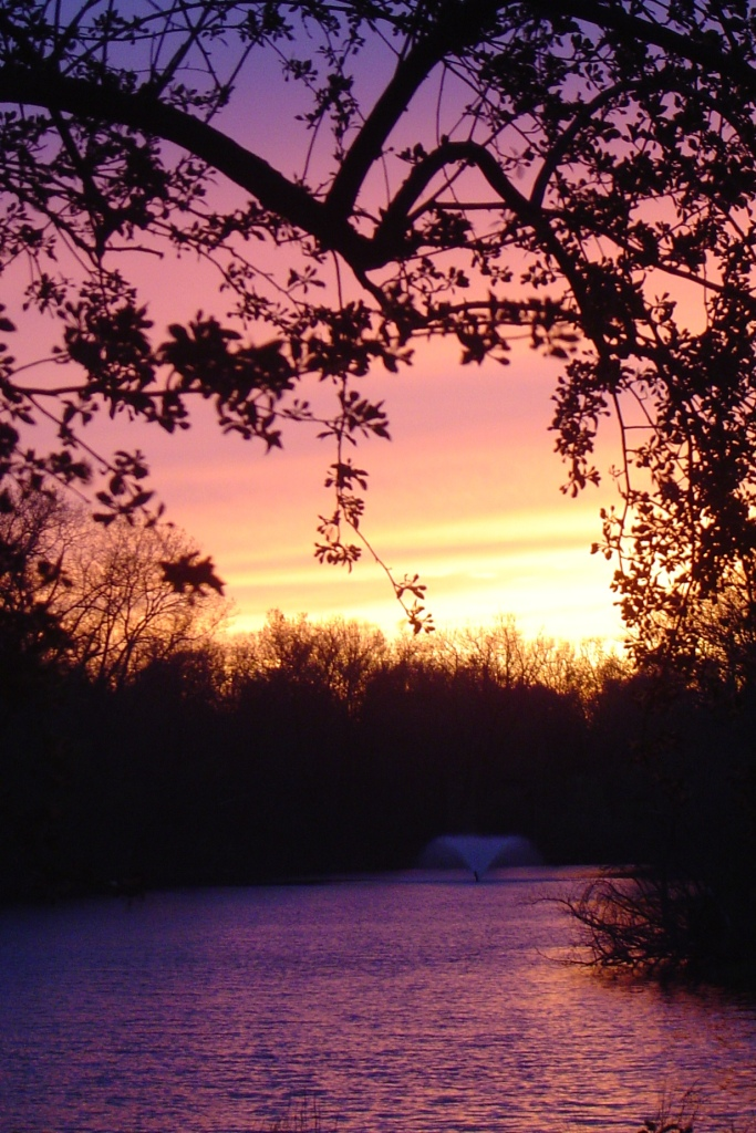 View of Buckingham Lake, Albany New York. Photo is my own.